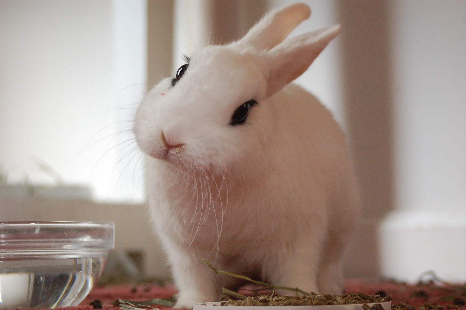 Her head tilt is much improved today, but not quite back to normal. Hotot Rabbit